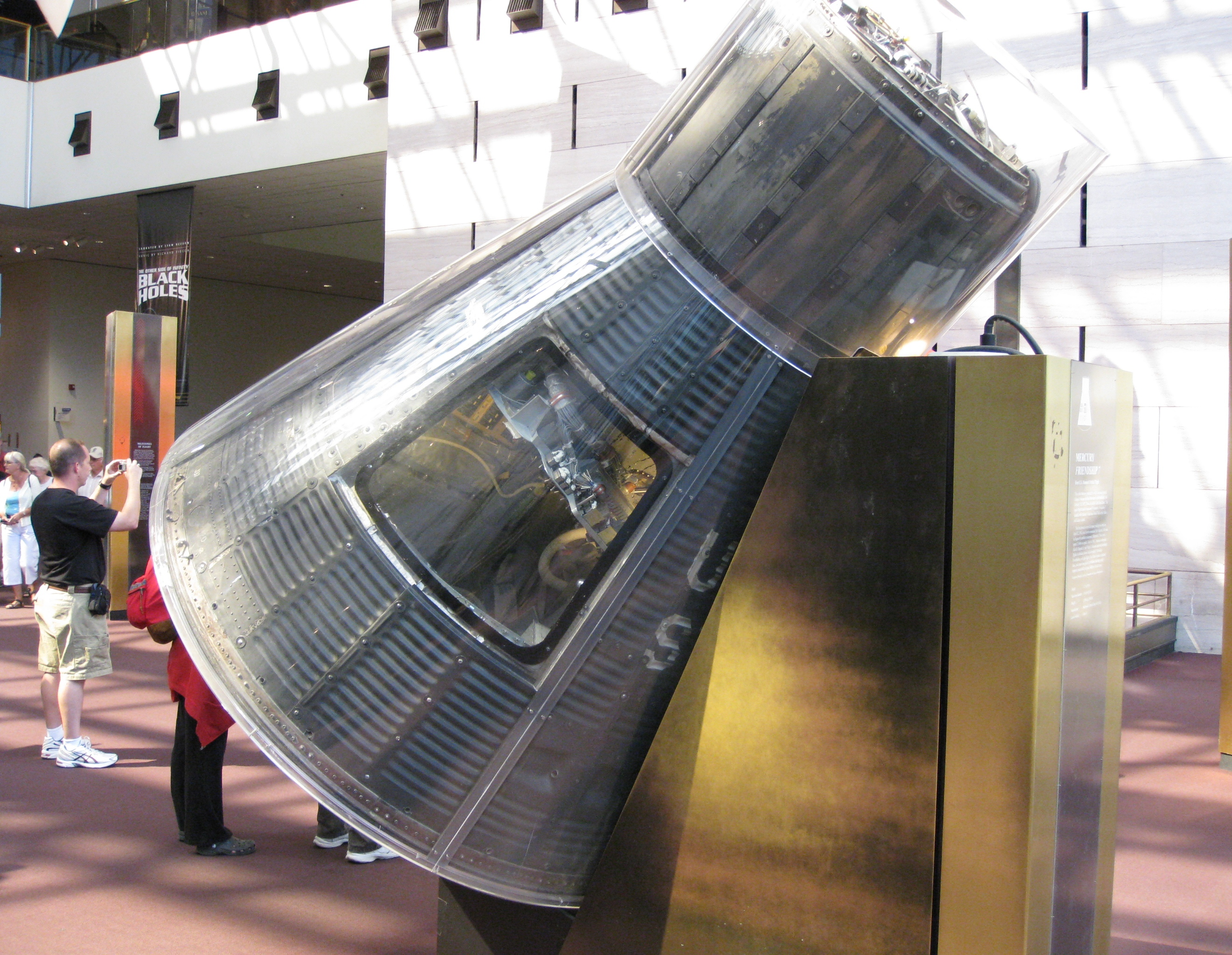 MA-6 Friendship 7 the National Air and Space Museum, Washington D.C